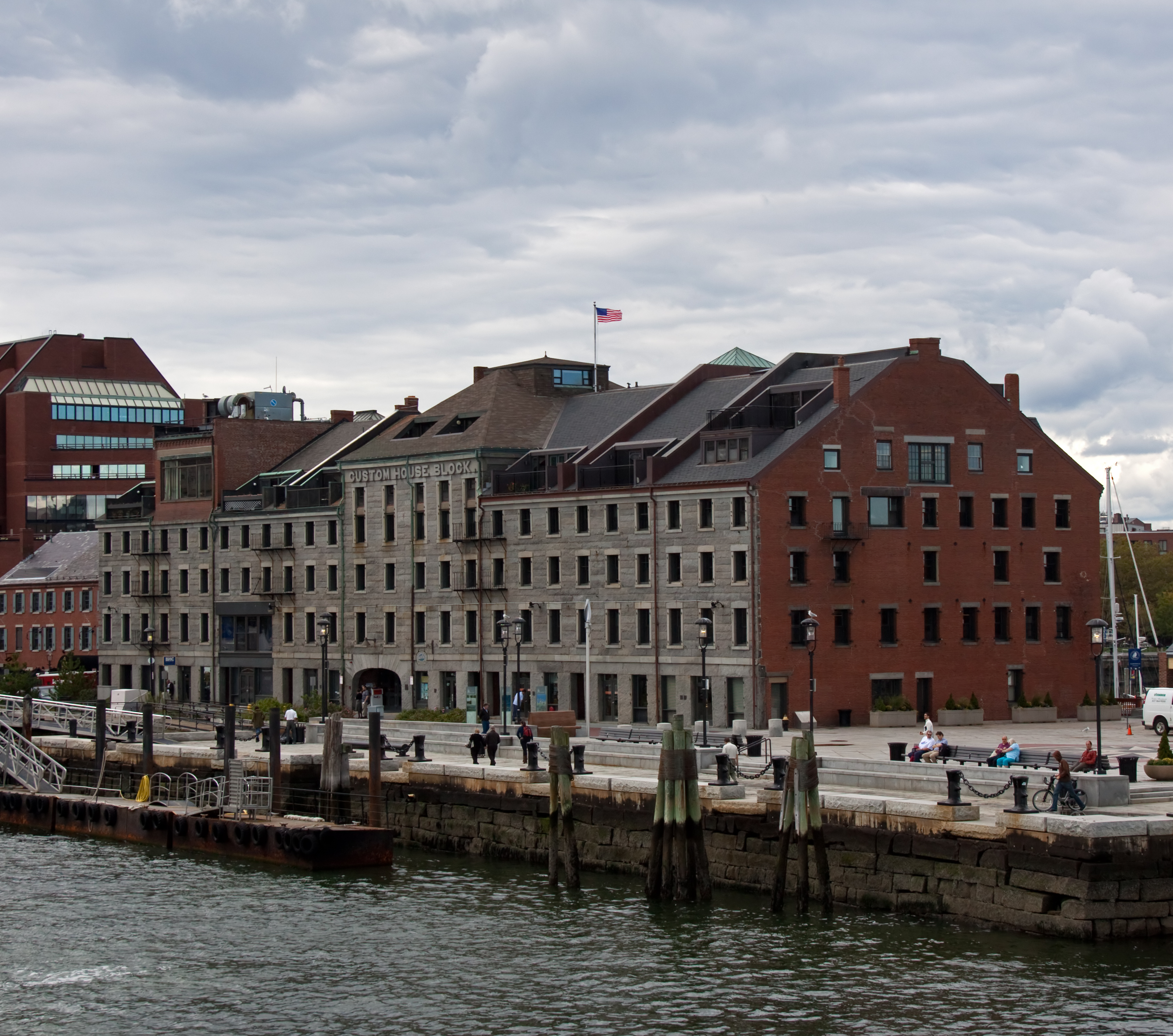 Custom House block, Boston